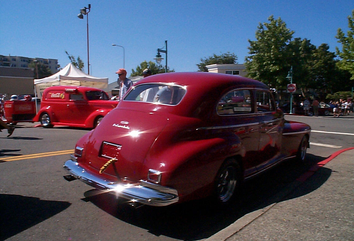 1941 Oldsmobile two door sedan, taken at an auto show in Kirkland, Washington.